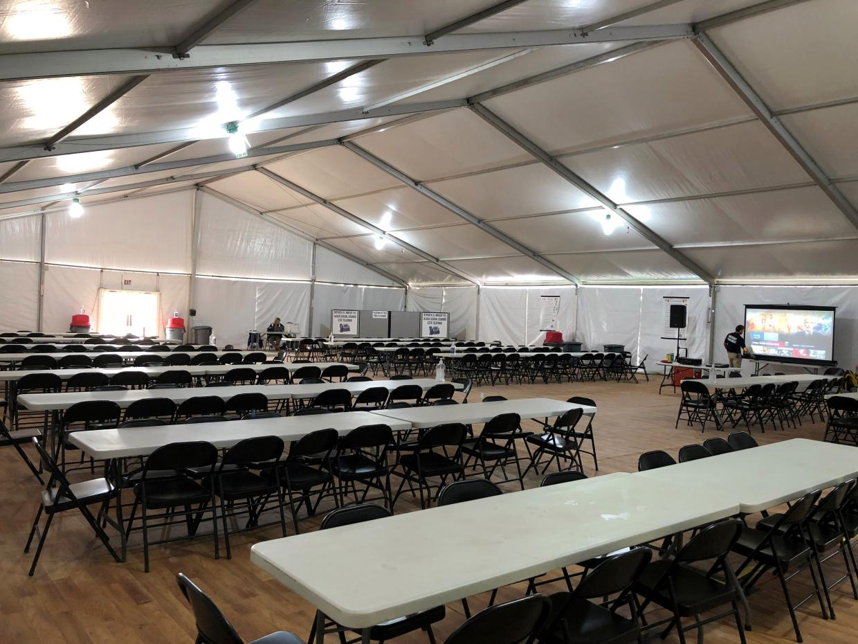 Image of what is likely the mess hall.